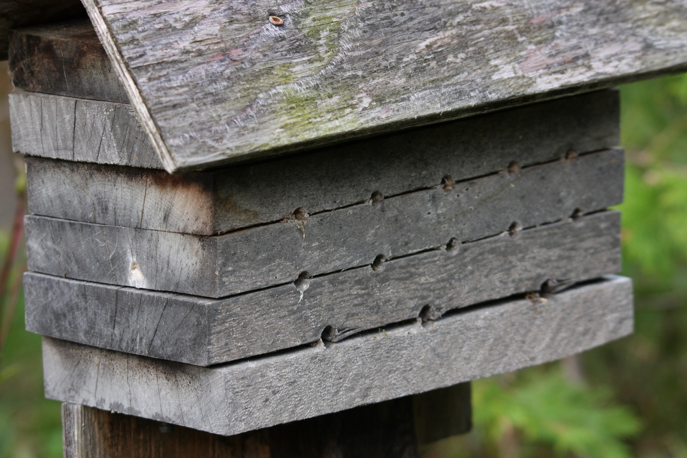 Shelter for Megachile, Léon-Provancher marsh, Québec, Canada.